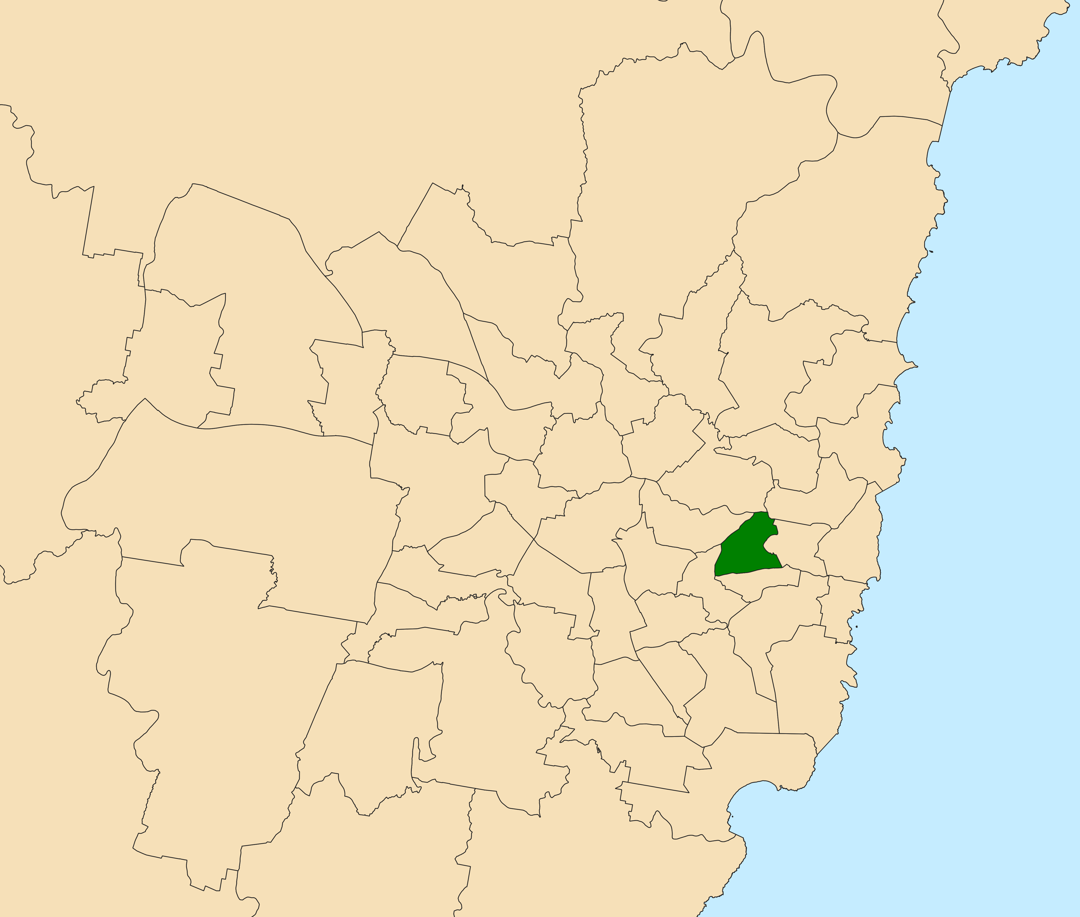 Location of the state electoral district of Balmain (dark green) in the metropolitan Sydney area as of the 2019 New South Wales state election. Incorporates or developed using Administrative Boundaries ©PSMA Australia Limited licensed by the Commonwealth of Australia under Creative Commons Attribution 4.0 International licence (CC BY 4.0).